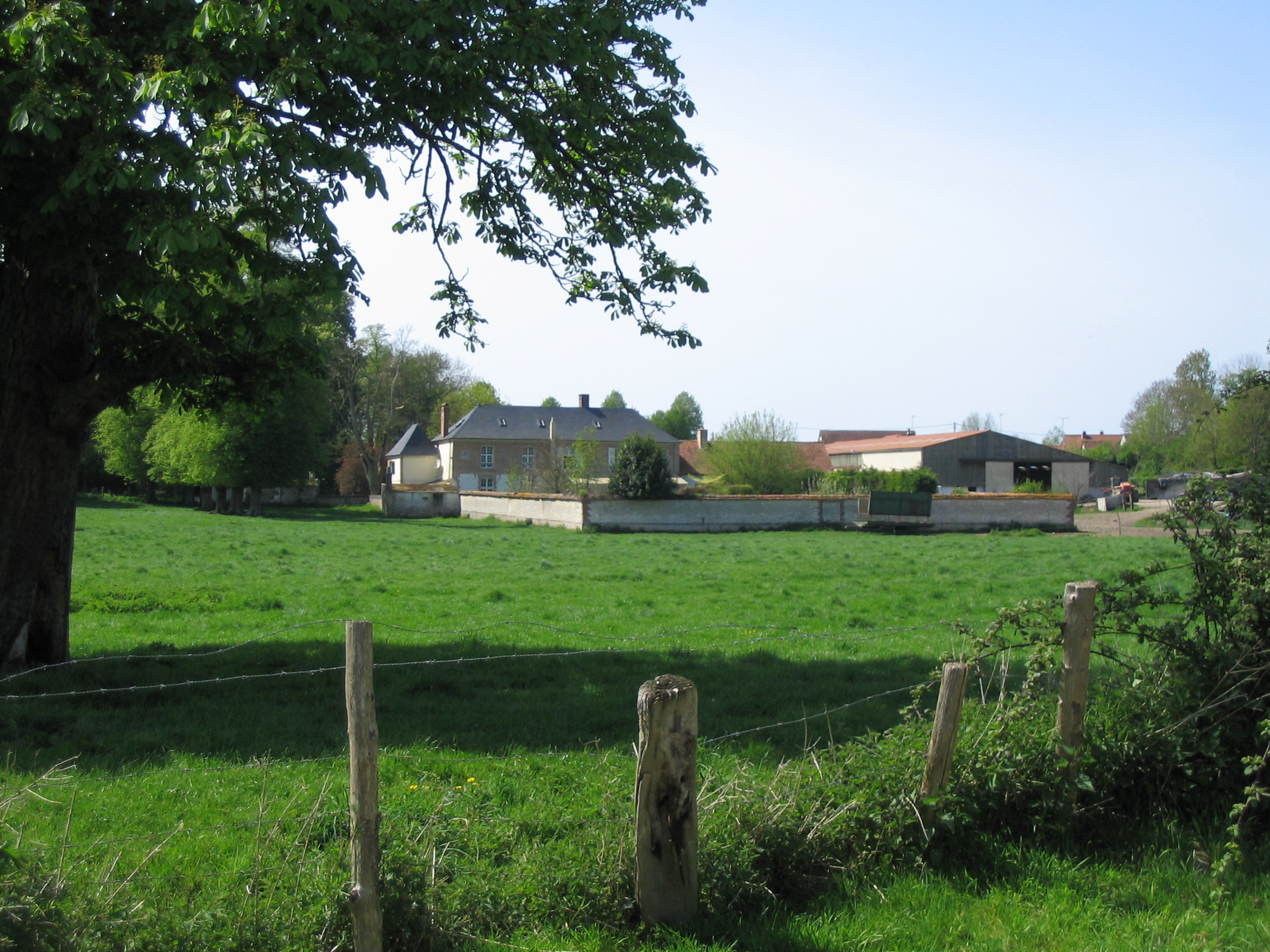 wailly beaucamp, la feuillée